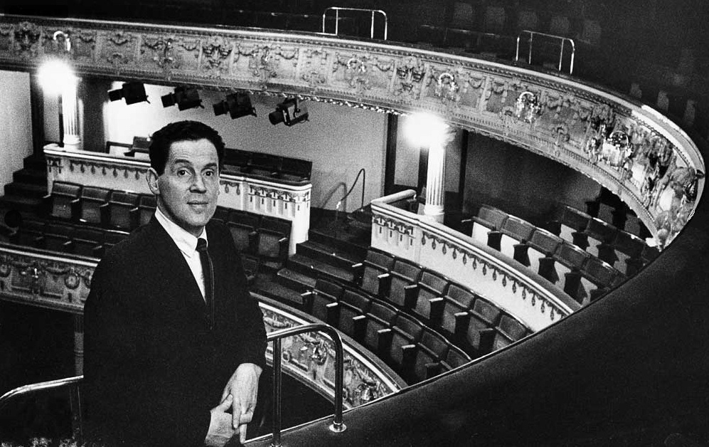 Erland Josephson in 1965, as newly appointed Managing Directors of the Royal Dramatic Theatre.